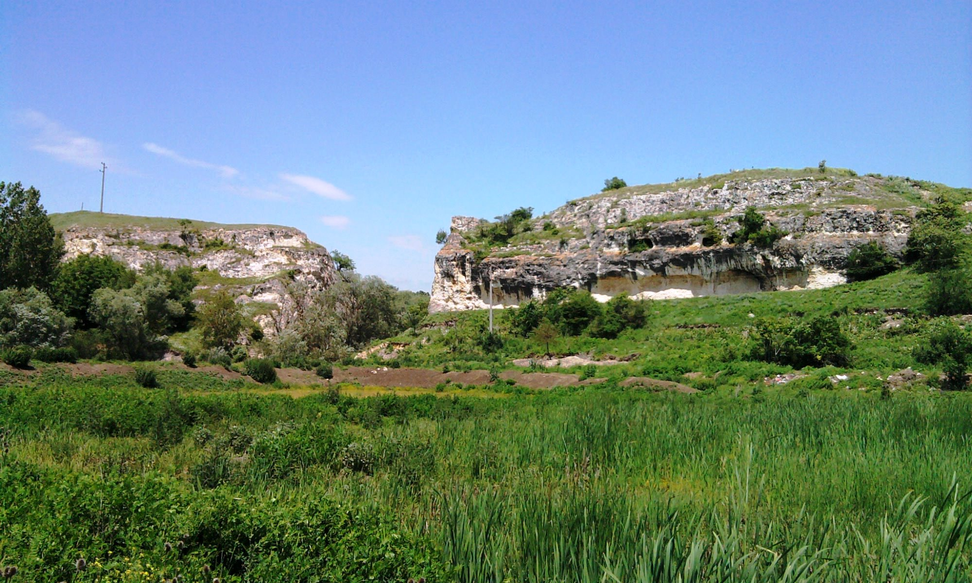 In the vicinity of Krivnya this place is known as Prosyakata